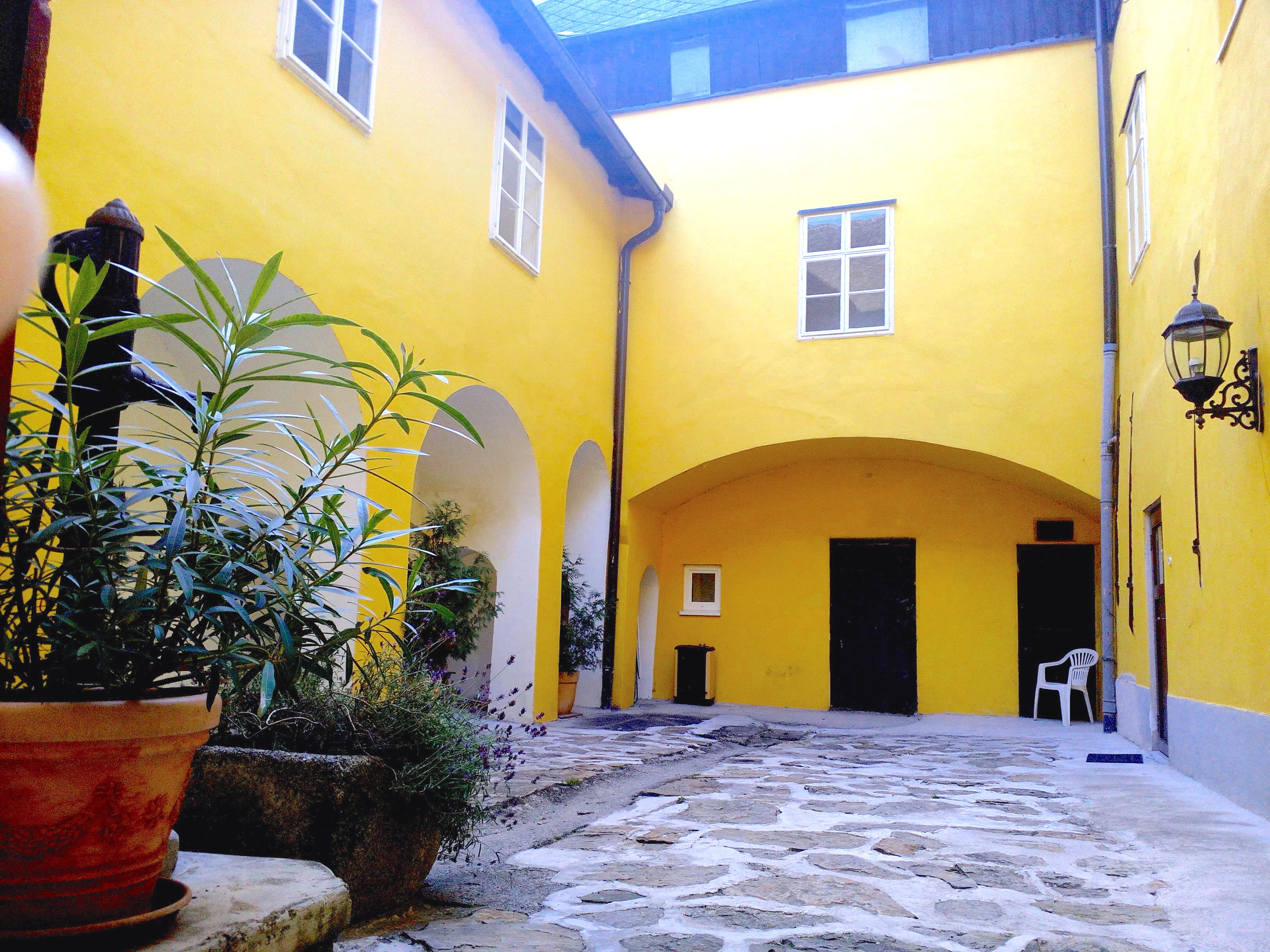 View of the inner courtyard Hohe Schule Loosdorf